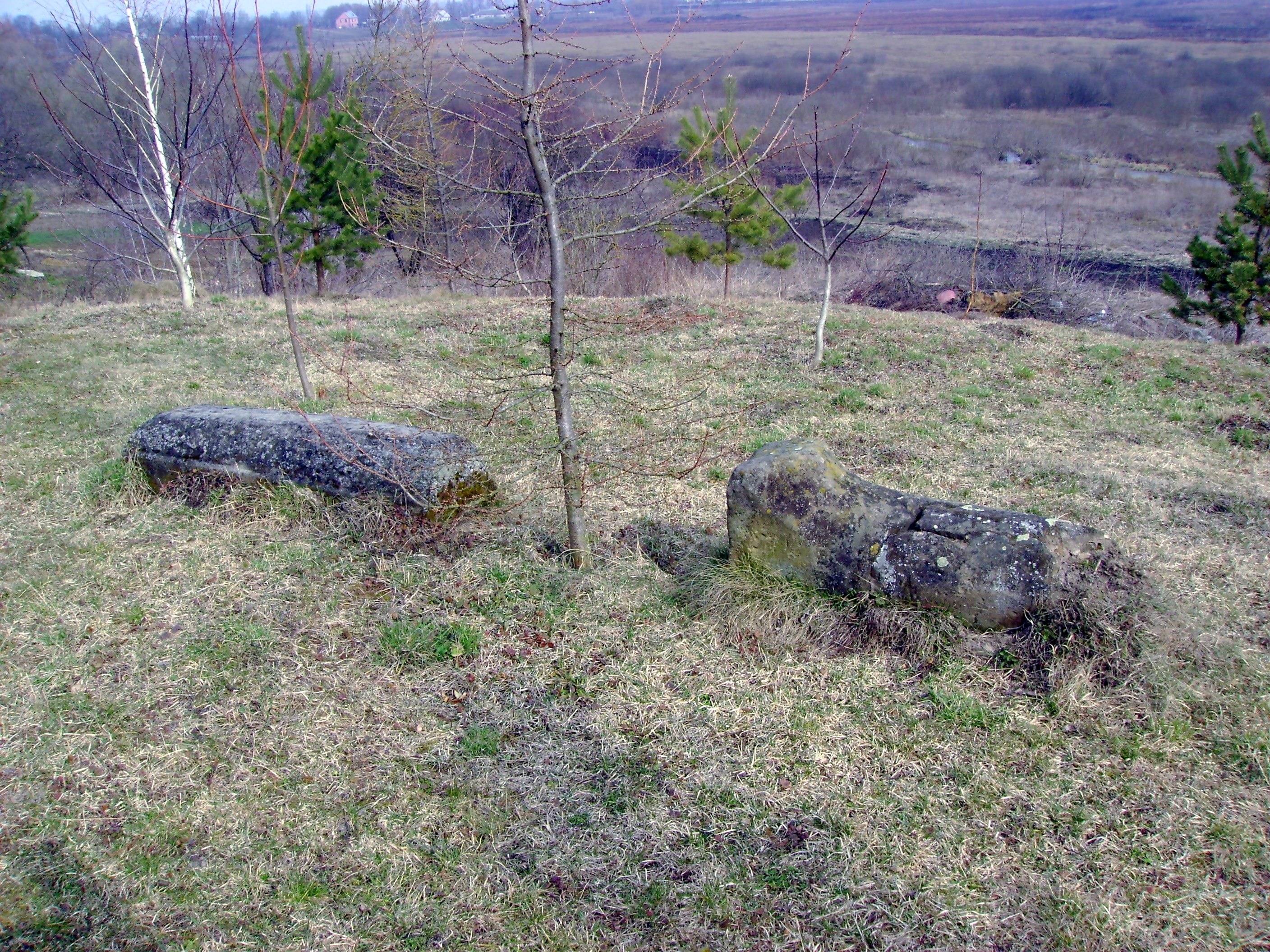 Cemetery of jews in Dubno of Rivne region (the Ukraine)